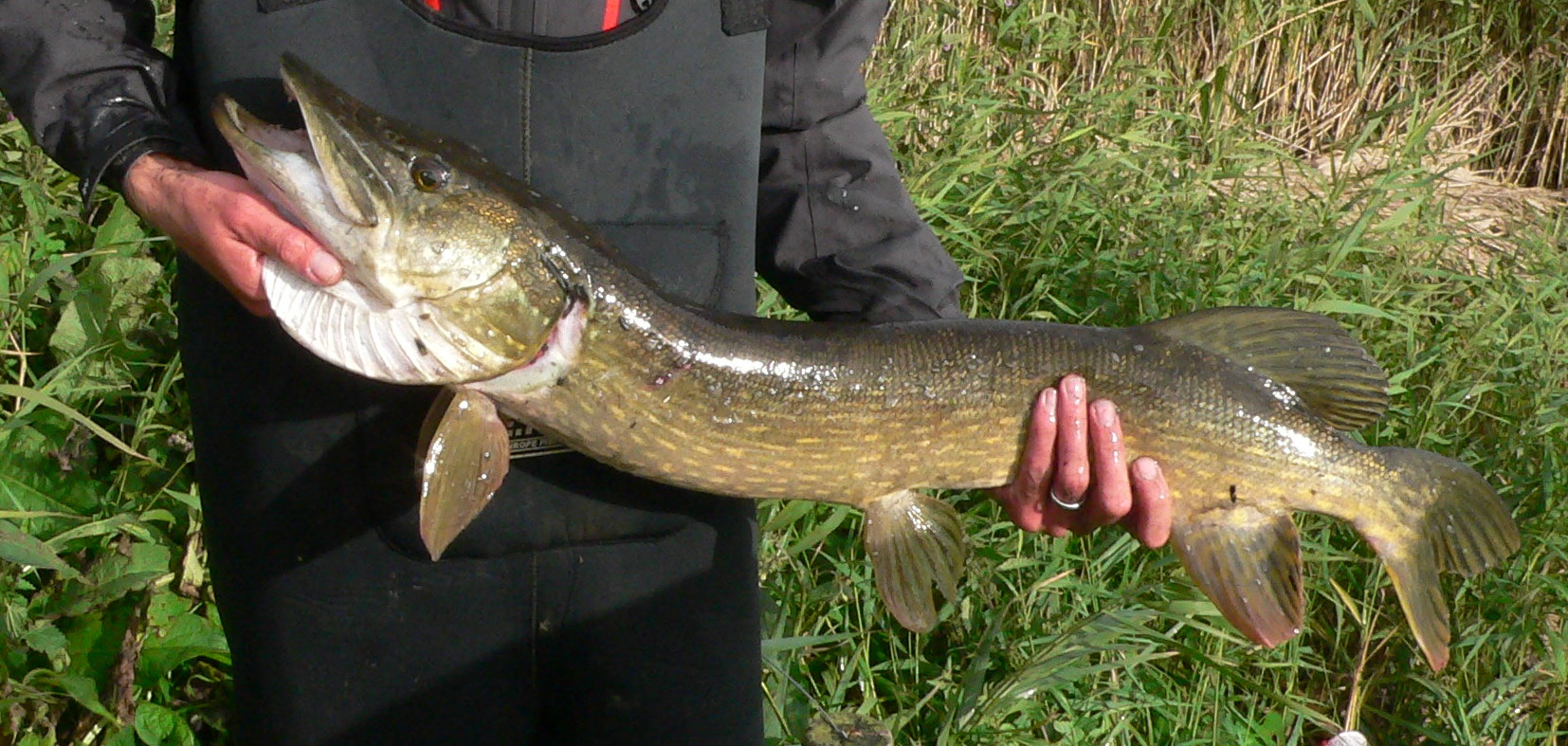 By inserting the fingers at the gill opening it is possible to get hold of the pikes lower jaw. Be careful not to enter the fingers too deep, because the inside of the pikes mouth and the gill rakers are covered with sharp teeth. Big pike should also be supported by the belly to reduce the tension put on the jaw. Other than that this is the recommended fish and angler friendly way to handle pike. Pike (Esox lucius, 96 cm caught with seine net for research purposes, taken at Lauwersmeer, Friesland, The Netherlands.